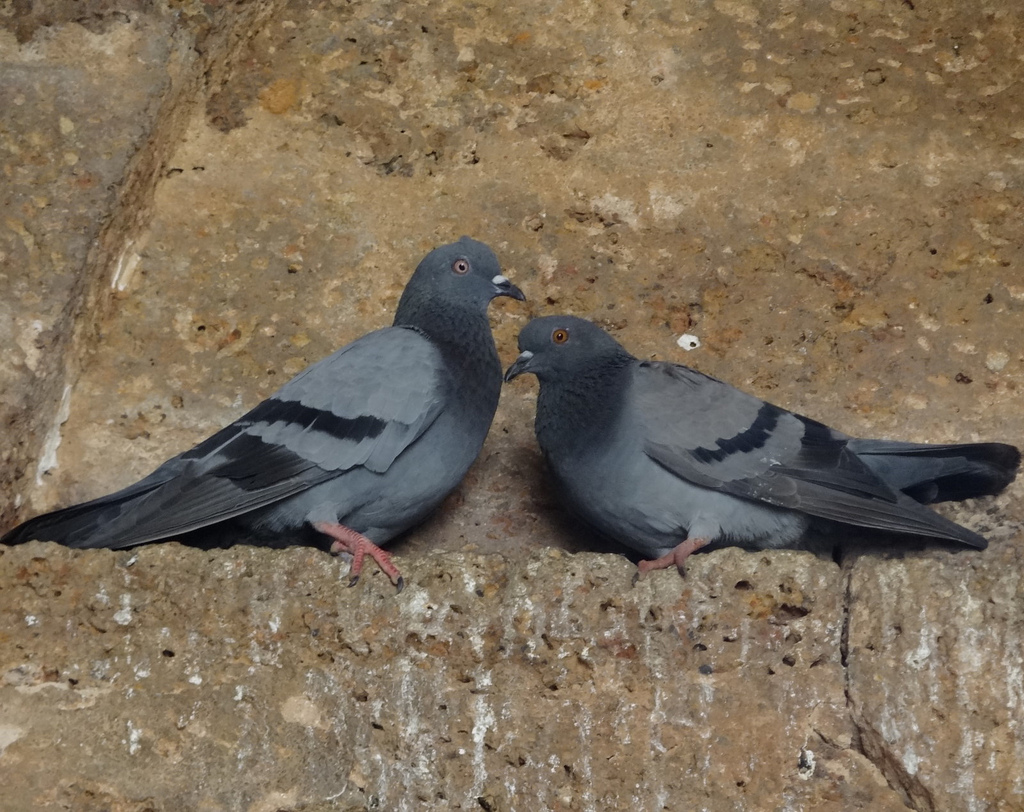 Columba livia